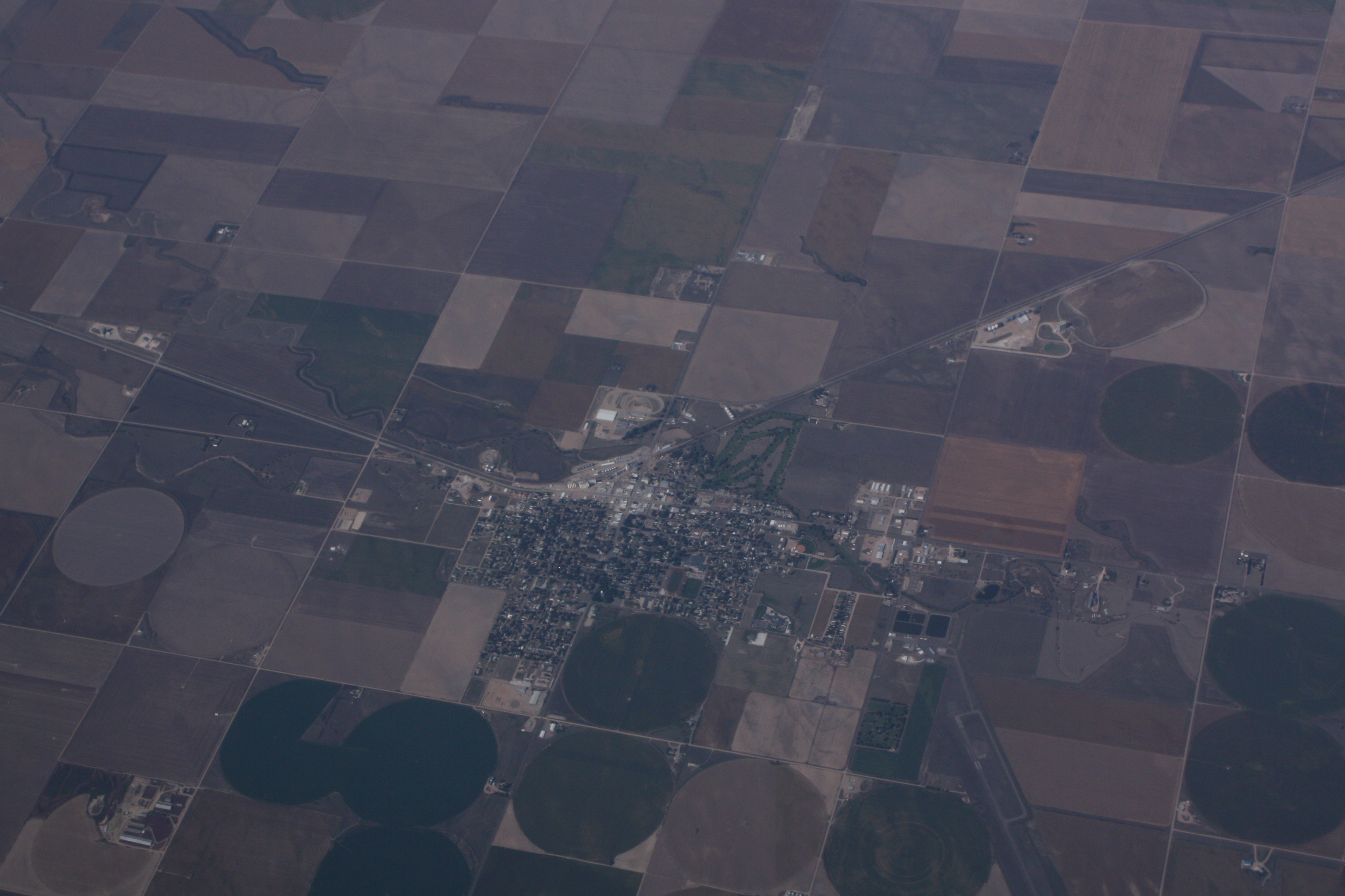 Oblique air photo of Holyoke, Colorado, facing approximately north, in September, 2018.